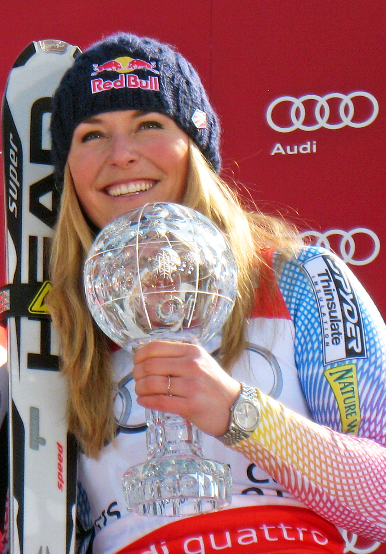 Lindsey Vonn show off her crystal globe at the Audi FIS World Cup Finals in Garmisch-Partenkirchen, Germany. Vonn took the downhill, super G and super combined titles, plus the Audi FIS World Cup overall title. (U.S. Ski Team/Doug Haney)